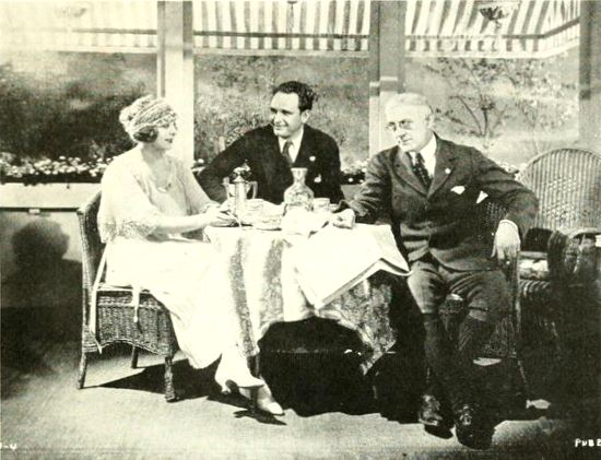 Still from the production of the American film Back Pay (1922) with director Frank Borzage discussing a scene with Seena Owen and J. Barney Sherry, on page 127 of Peter Milne, Motion Picture Directing; The Facts and Theories of the Newest Art (1922).